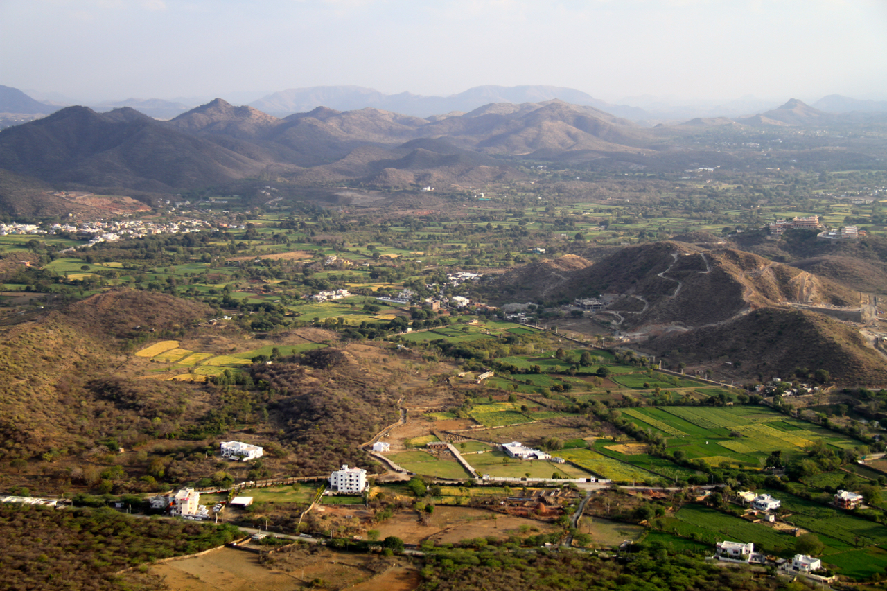 Udaipur city and neighboring Aravalli mountains region Lakes, villages, cities, rural parts of southeast and south Rajasthan Aravali range, Rajasthan India March 2015